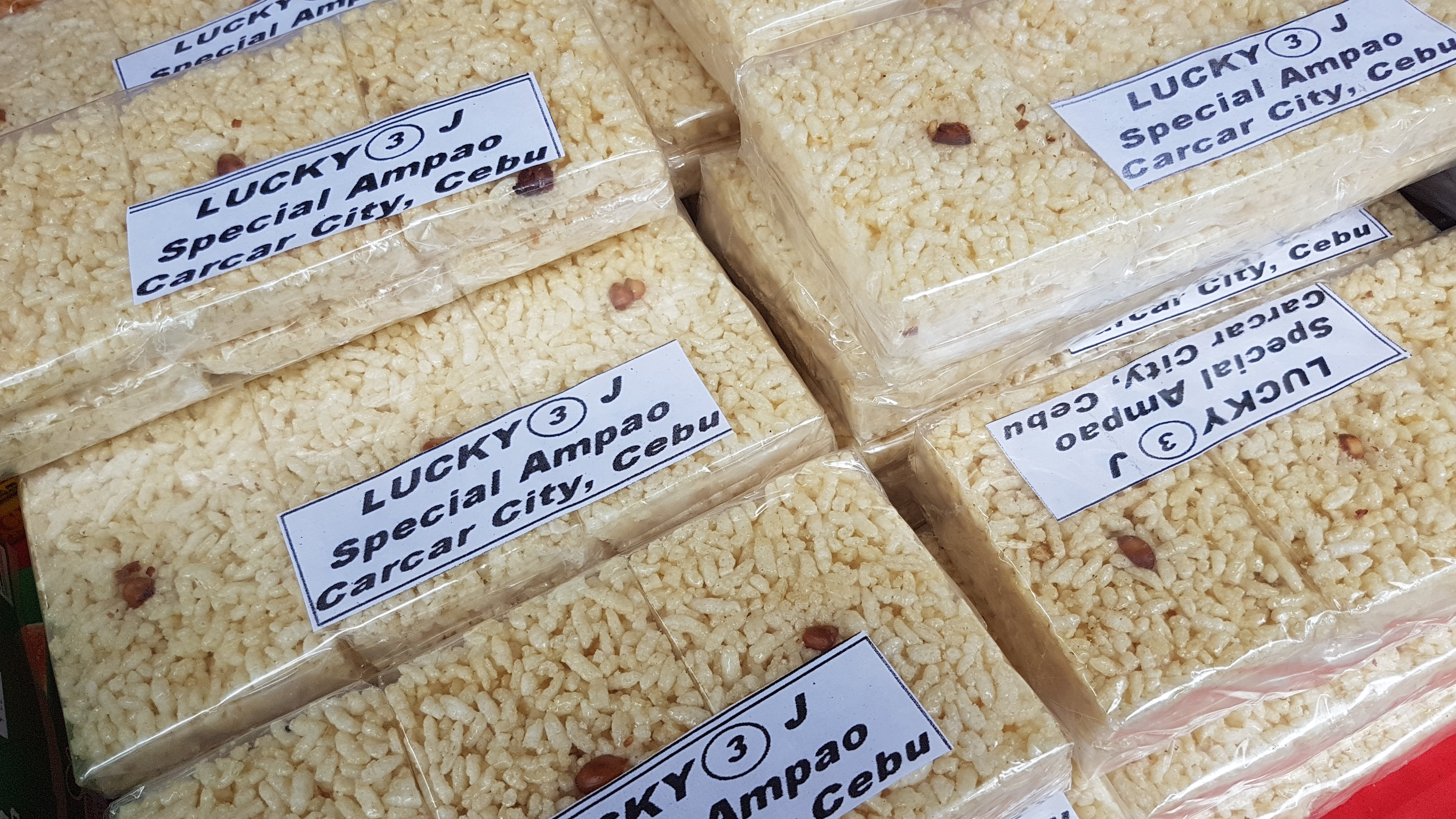 Ampao from Carcar, Cebu